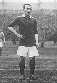 picture of a match between Celtic FC and Hearts